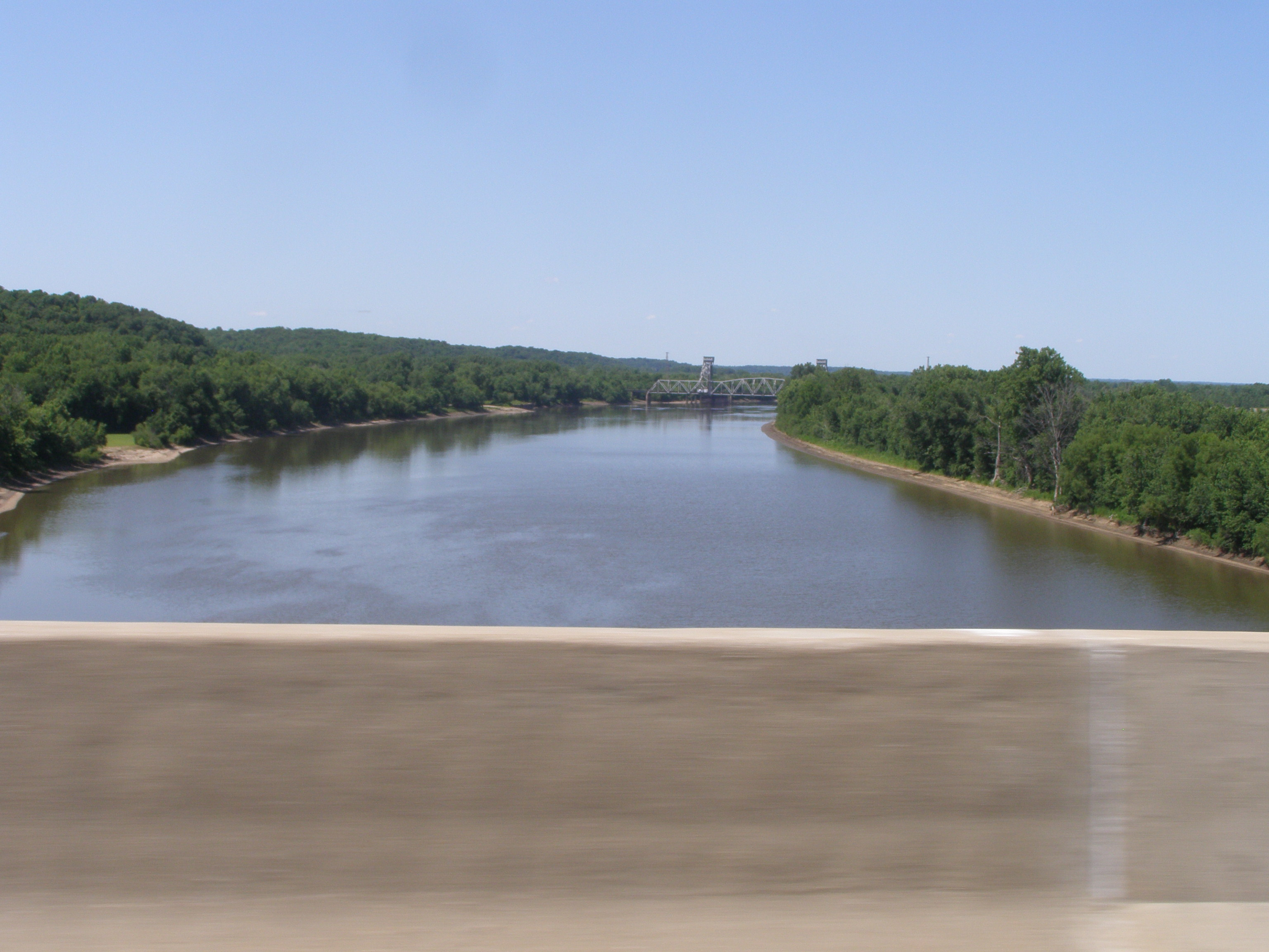 Illinois River at I-74 and U.S. 36. Five miles north at Naples, Illinois, the Potawatomi Trail of Death caravan crossed the Illinois River by Ferry.